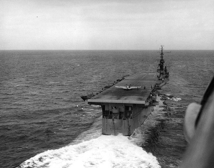 USS Monterey (CVL-26) underway in the Gulf of Mexico on 28 August 1951, while serving as a training carrier. An SNJ training plane is on her flight deck, aft.